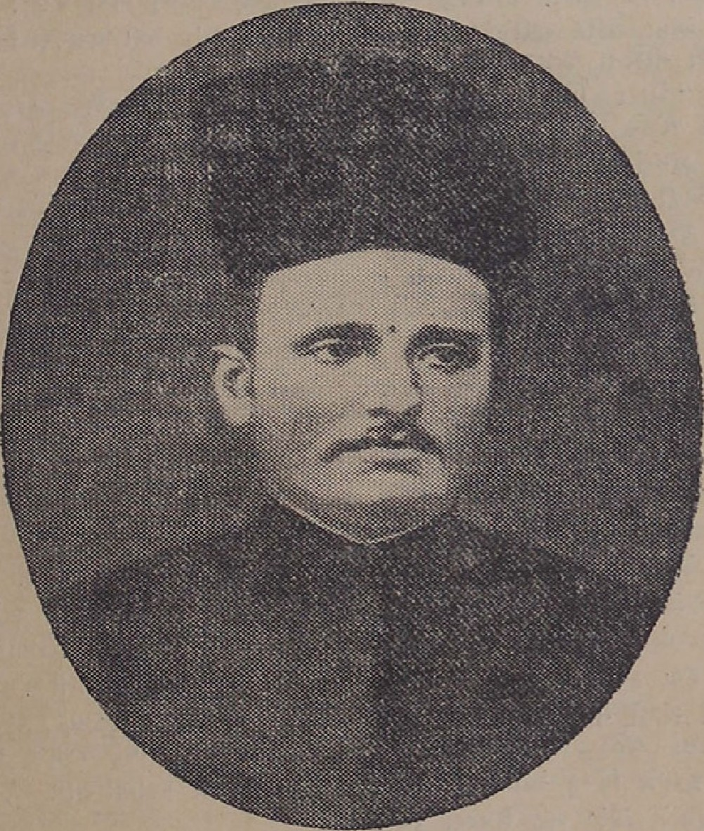 Karsandas Mulji (25 July 1832 – 28 August 1875), Indian journalist, writer and social reformer from Gujarat